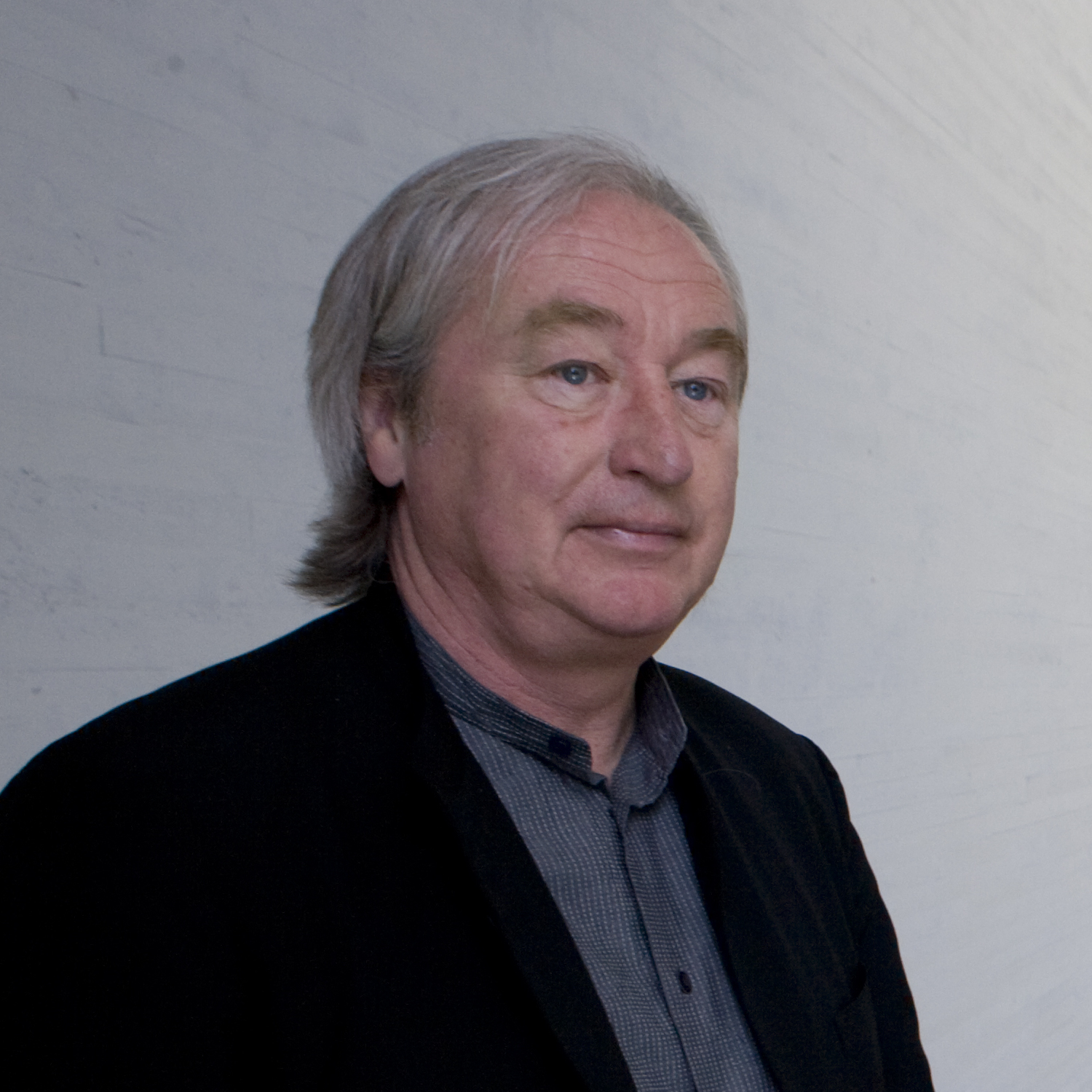 Architect Steven Holl on the second-floor balcony in 2008. Holl once described Kiasma: "The walls meet the ceiling and the floor in a very simple way to allow the art work to be positioned on the wall whatever manner, to allow its presence to be the most important feature and not the architecture."